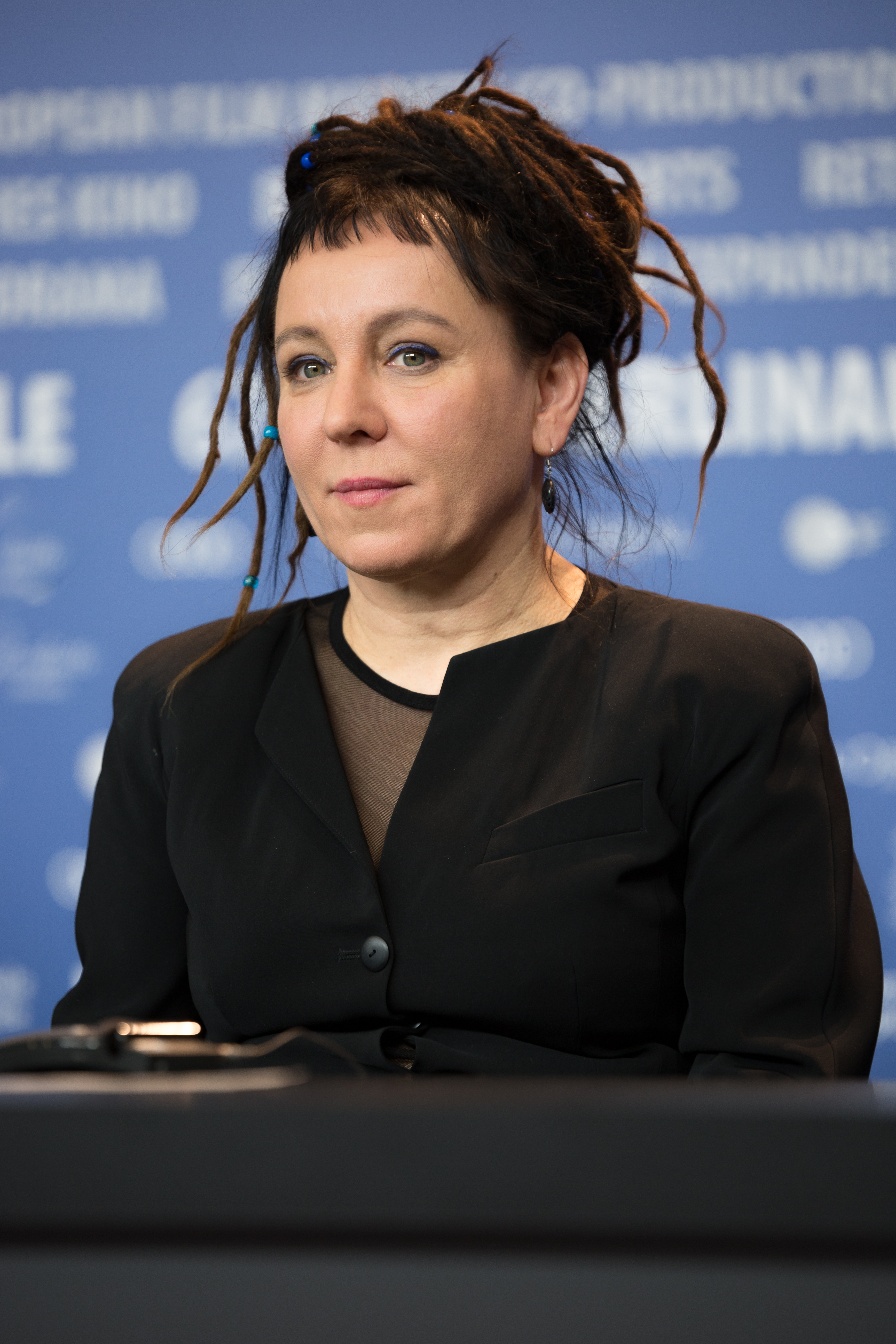 Author Olga Tokarczuk at the presentation of the polish movie Spoor at the Berlinale 2017